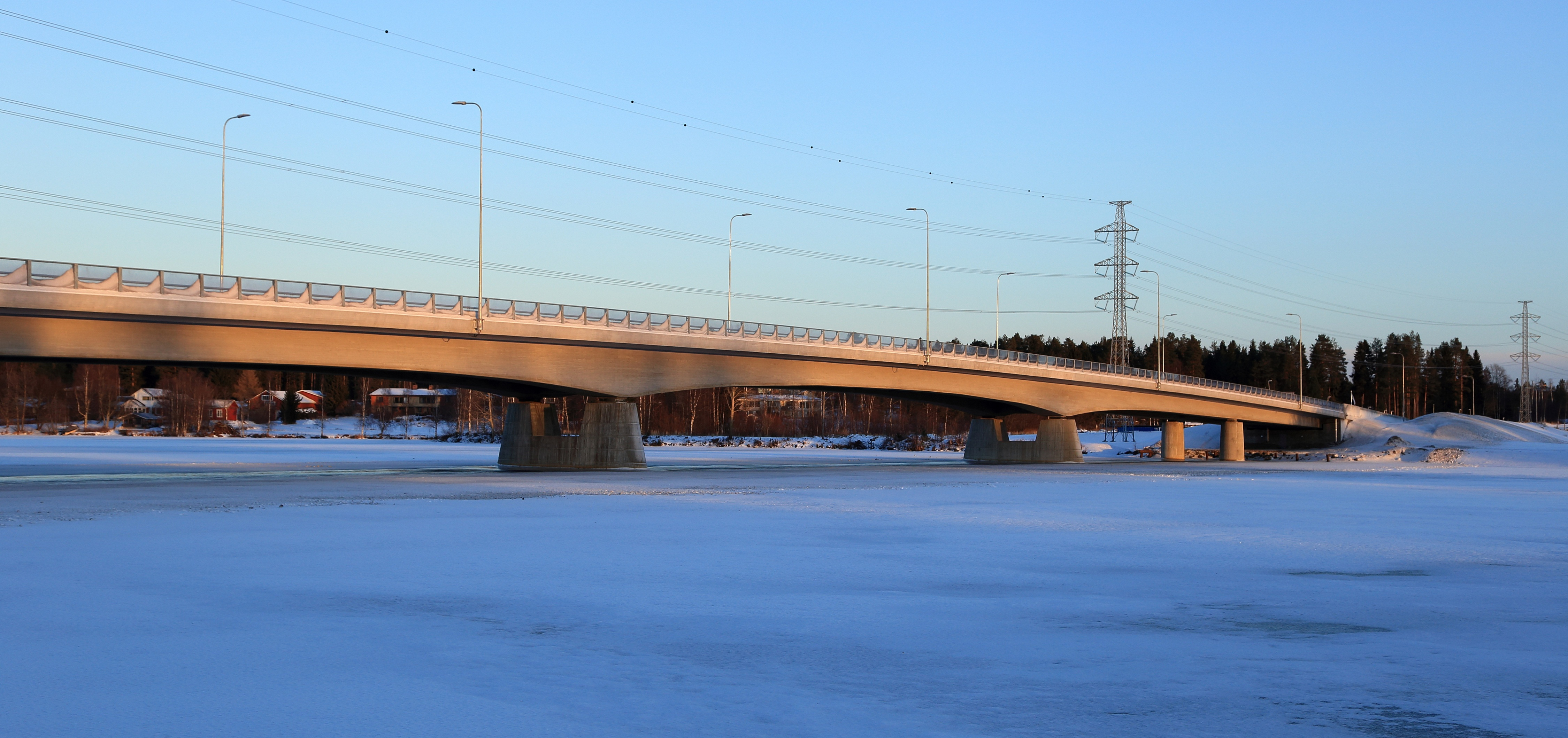 The Pokkimaantie Bridge in Oulu.